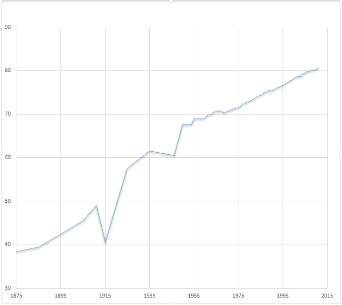 Evolution of life expectancy in Germany for the period 1875-1911.[1]